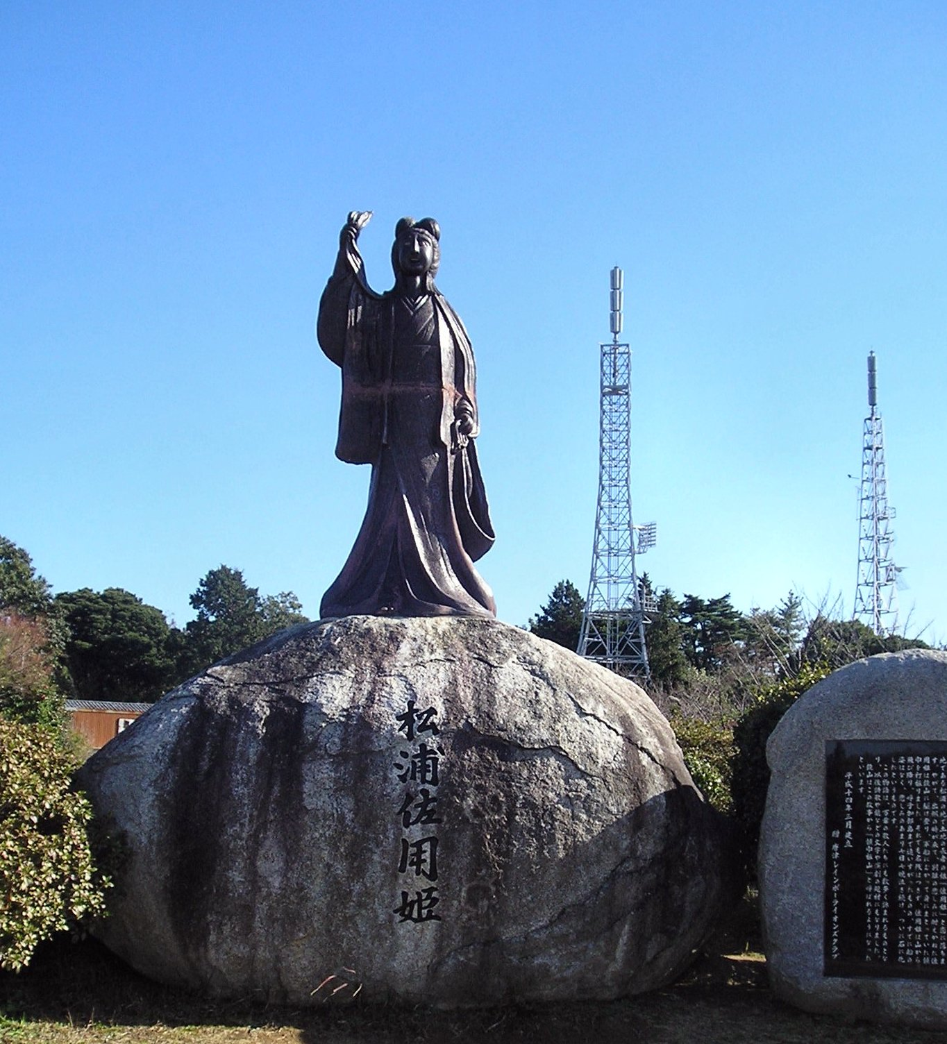 Statue of Princess Sayo at Mount Kagami, Karatsu City, Saga, Japan